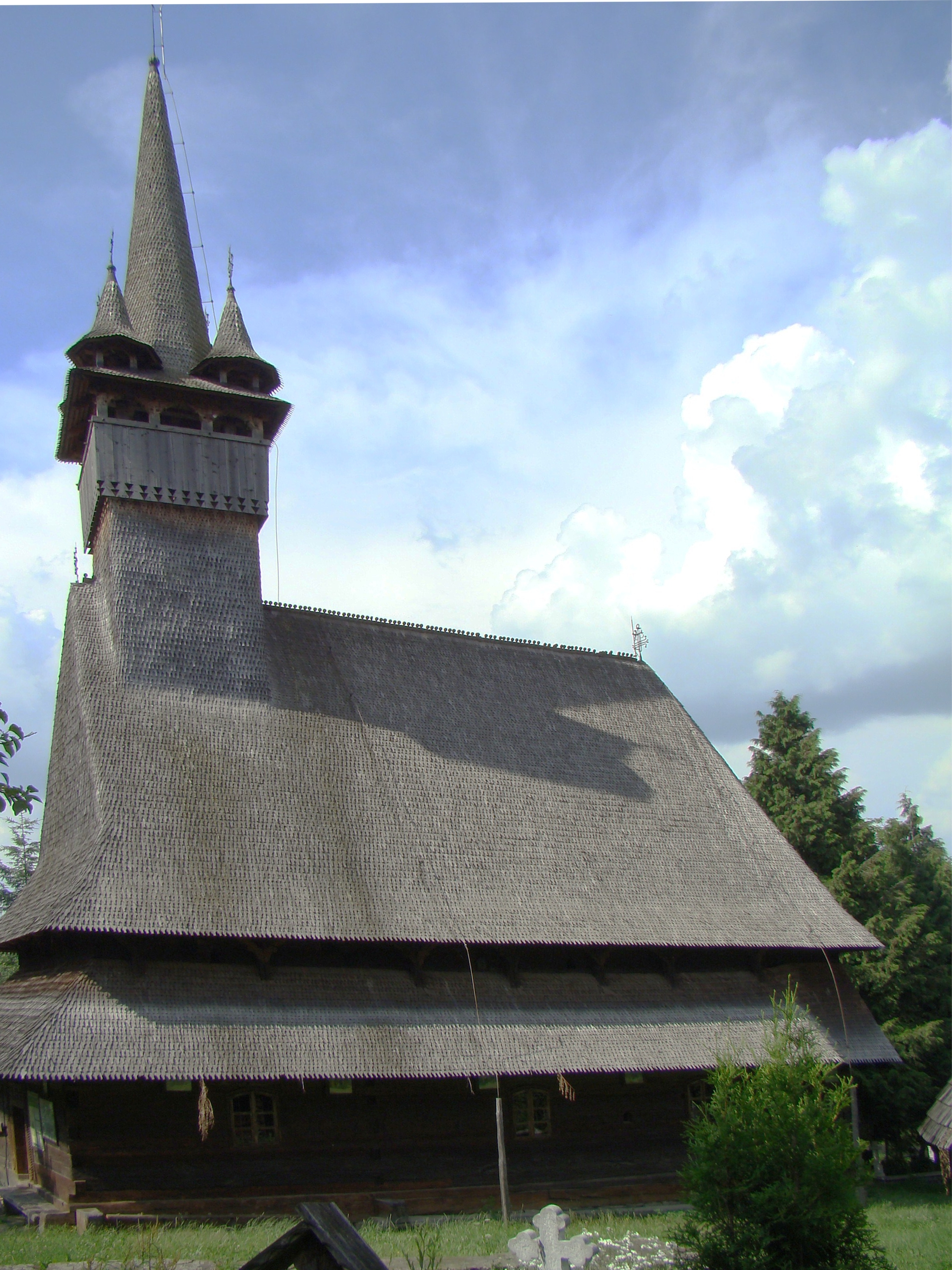 Wooden church in Budeşti Josani, Maramureş